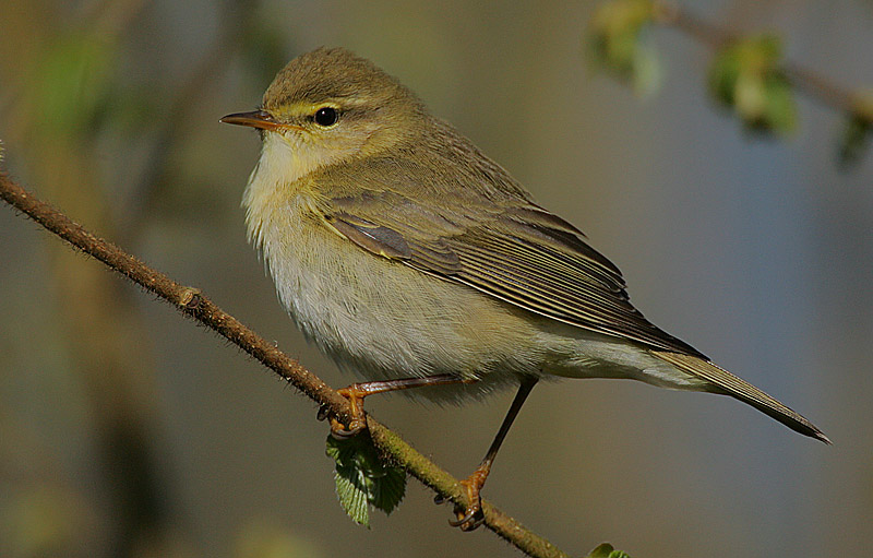 Image taken in Valleyfield Woods, Fife, Scotland.